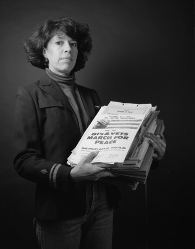 Susan Schnall GI Resister During the Vietnam War, court-martialed for demonstrating and speaking at an antiwar rally in uniform.